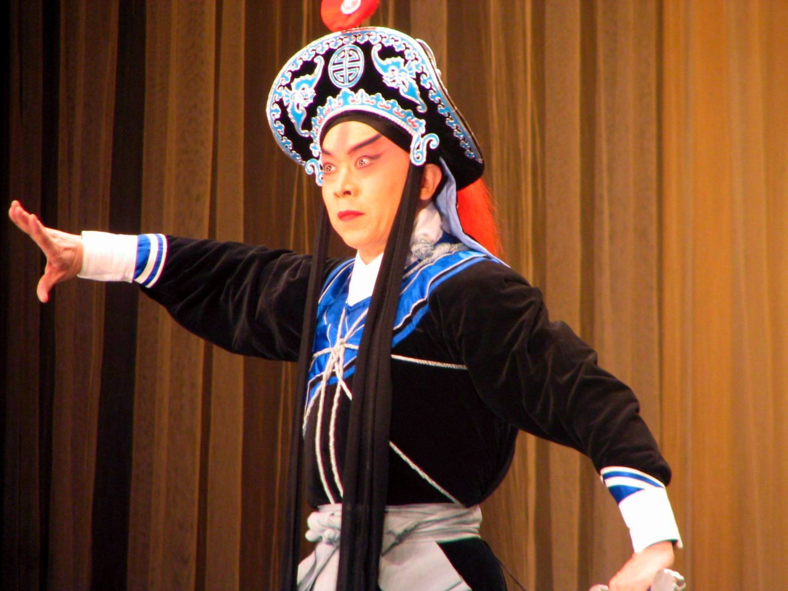 From a Peking opera performance by Tianjin Youth Peking Opera Troupe (天津市青年京剧团) at Maule Regional Theatre (Teatro Regional del Maule), Talca, Maule Region, Chile.